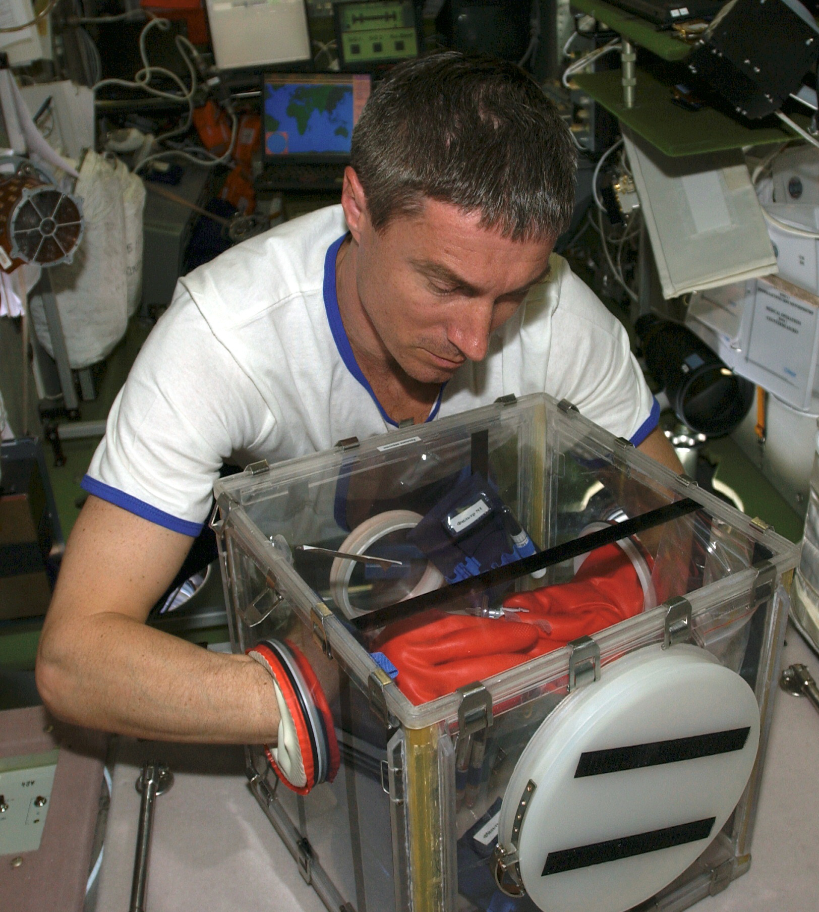 Expedition 11 Commander Sergei Krikalev works with a portable Russian glovebox in the Zvezda Service Module of the International Space Station.